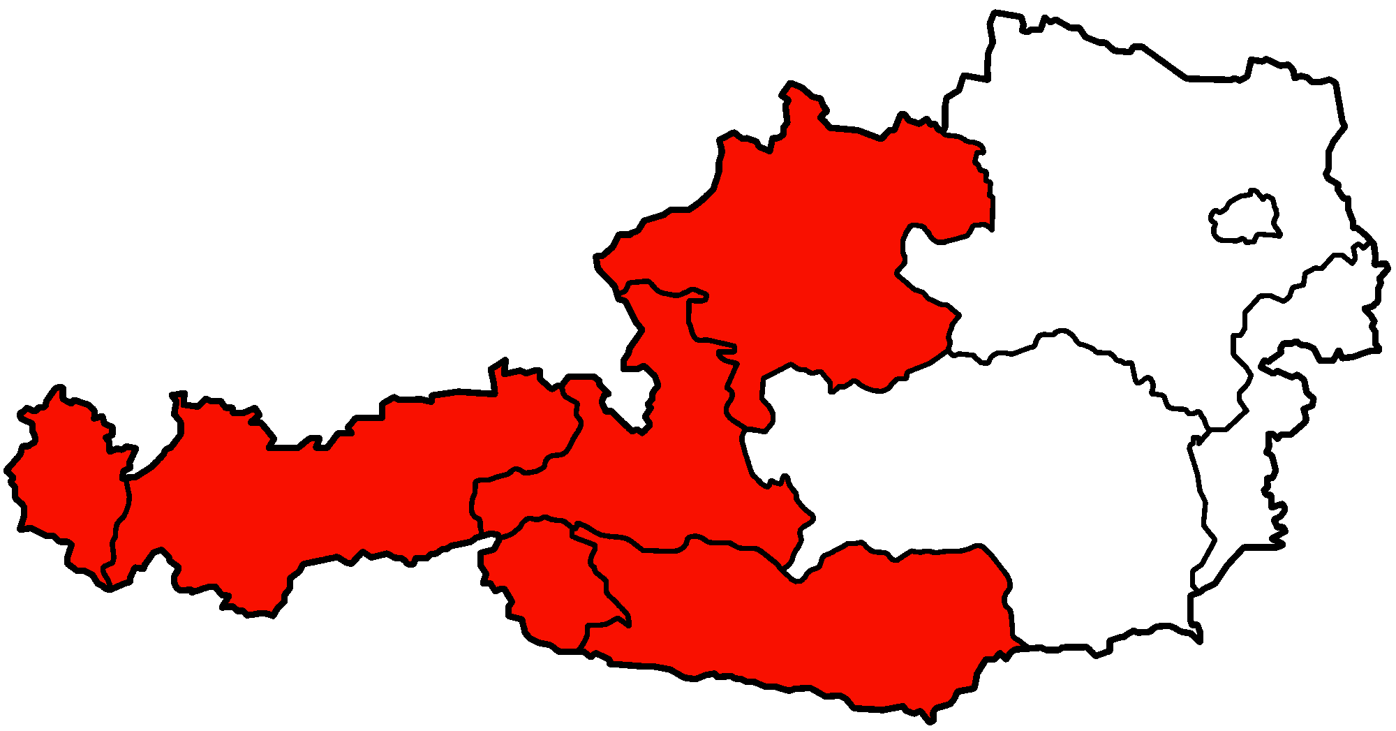 Austrian Armed Forces II Army Corps Area of Command